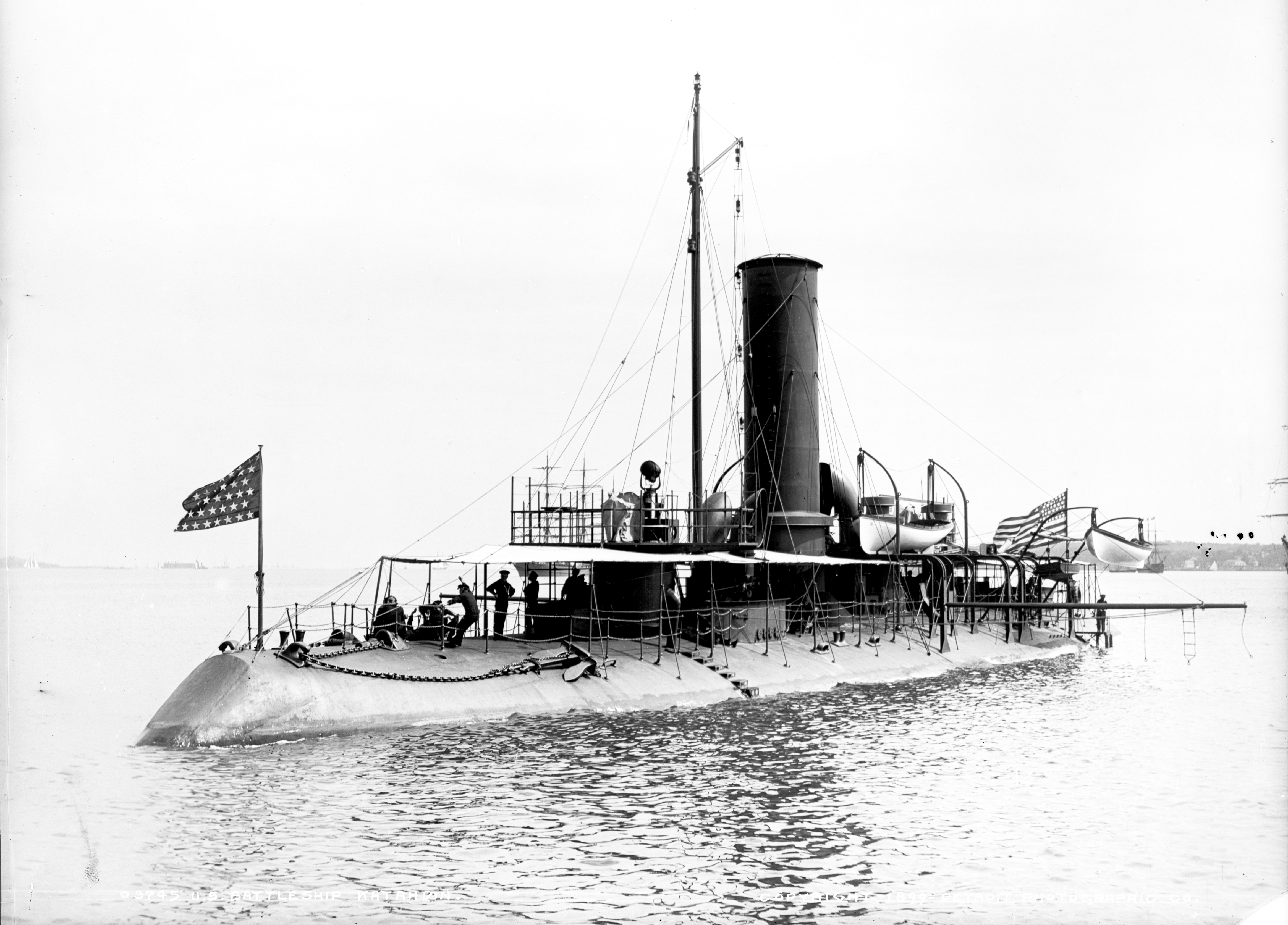 USS Katahdin (1893), an ironclad harbor-defense ram, c. 1899.